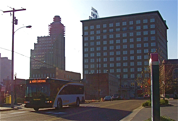 Jatran bus in front of Hotel King Edward and Standard Life Building, downtown Jackson, Mississippi, December 2009.